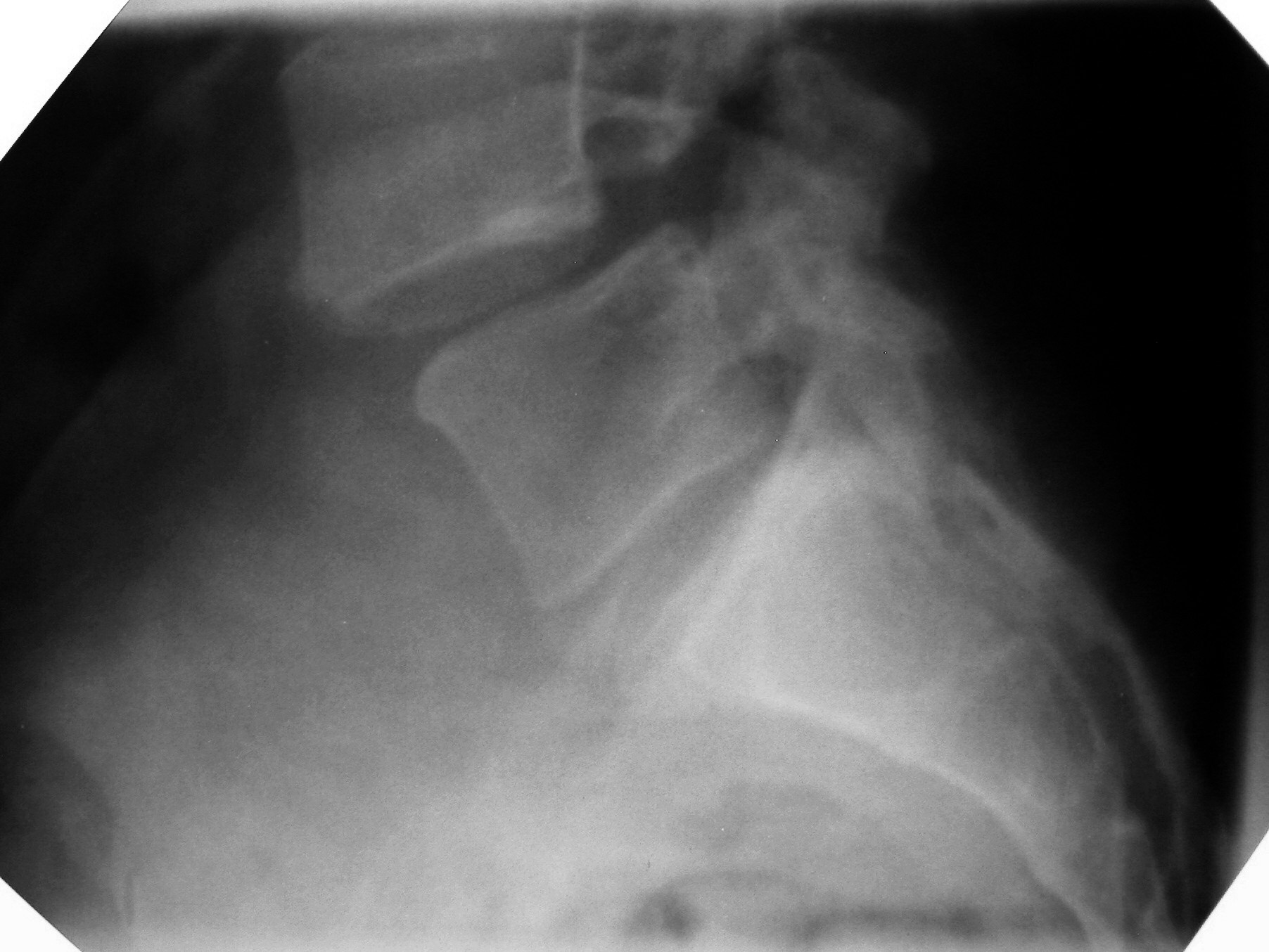 Spondylolisthesis in lumbar region. X-ray.